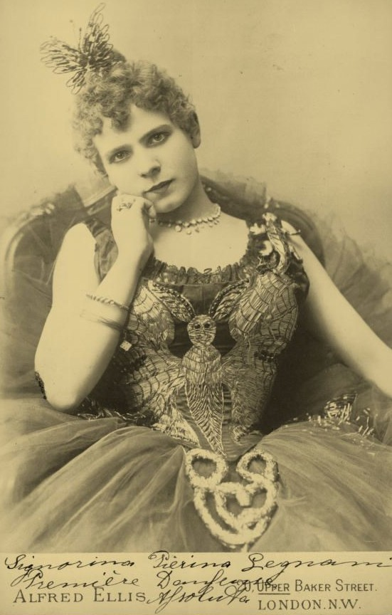 Photograph of Pierina Legnani (1863-1923)